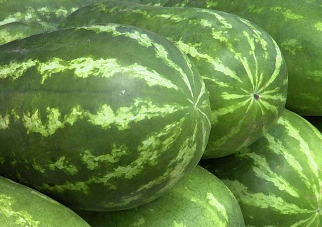 Melons in East Texas